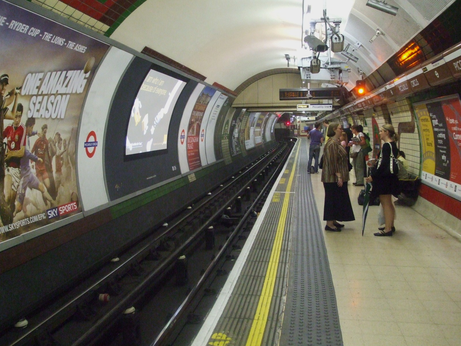 Piccadilly Circus tube station Bakerloo line southbound platform looking north. Note video advertisement projected onto tunnel wall.